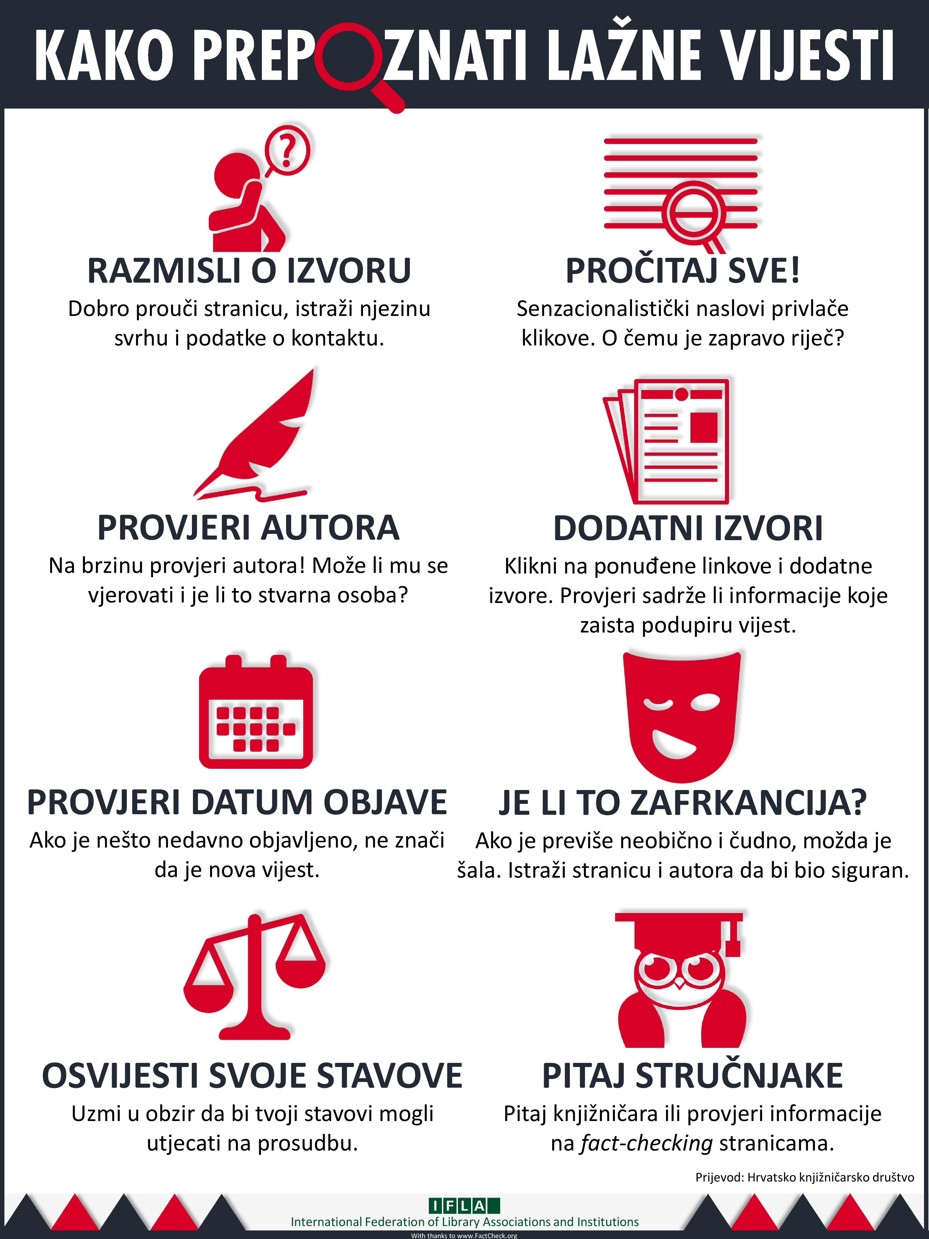 Croatian translation of IFLA infographic based on ’s 2016 article "How to Spot Fake News" in JPG format.